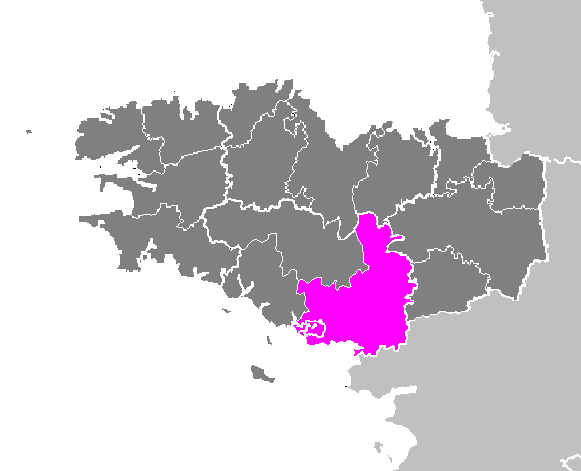 Maps of arrondissements and cantons of France: Arrondissement de Vannes.PNG